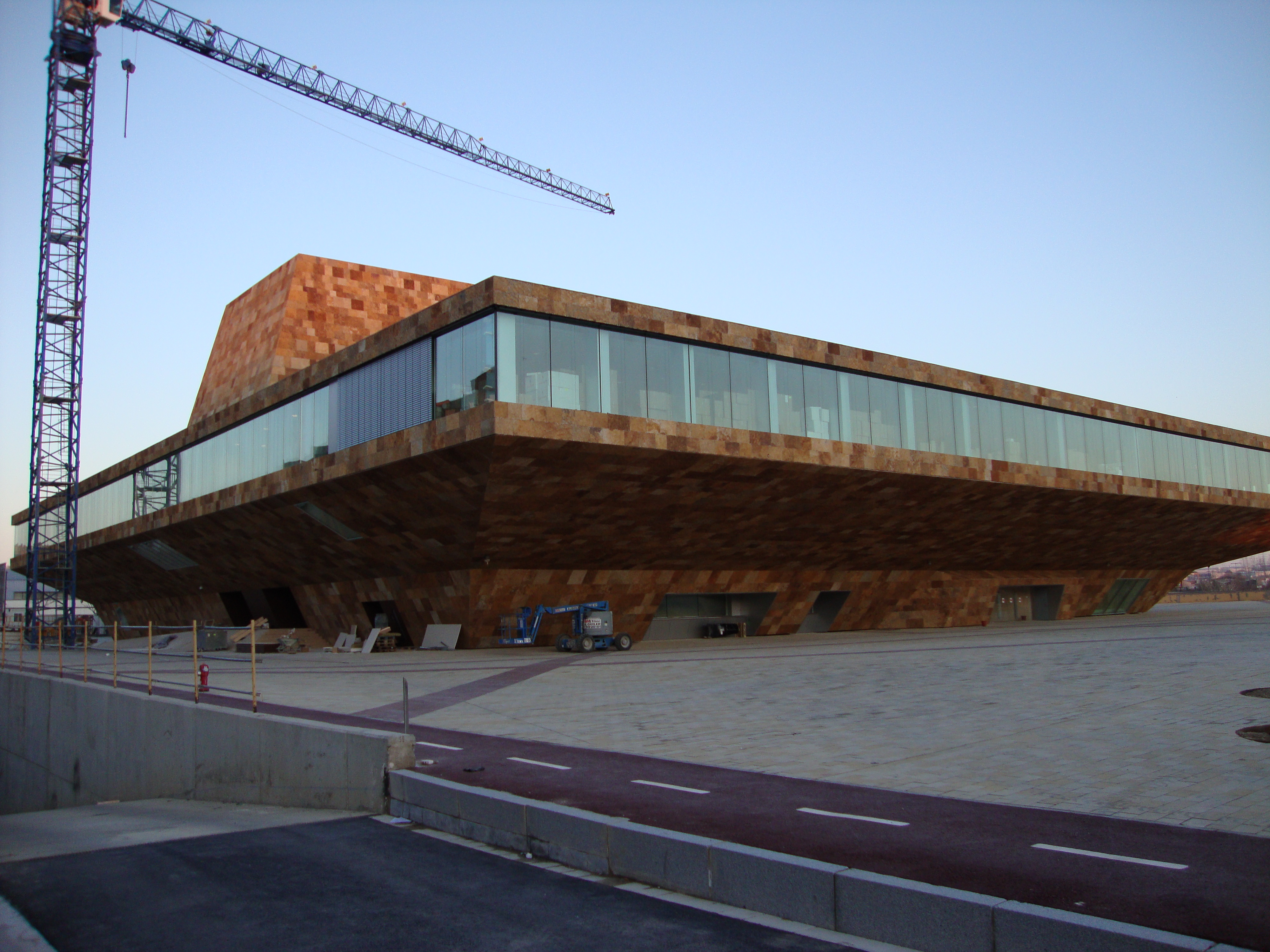 La Llotja de Lleida convention center (December 20, 2009)